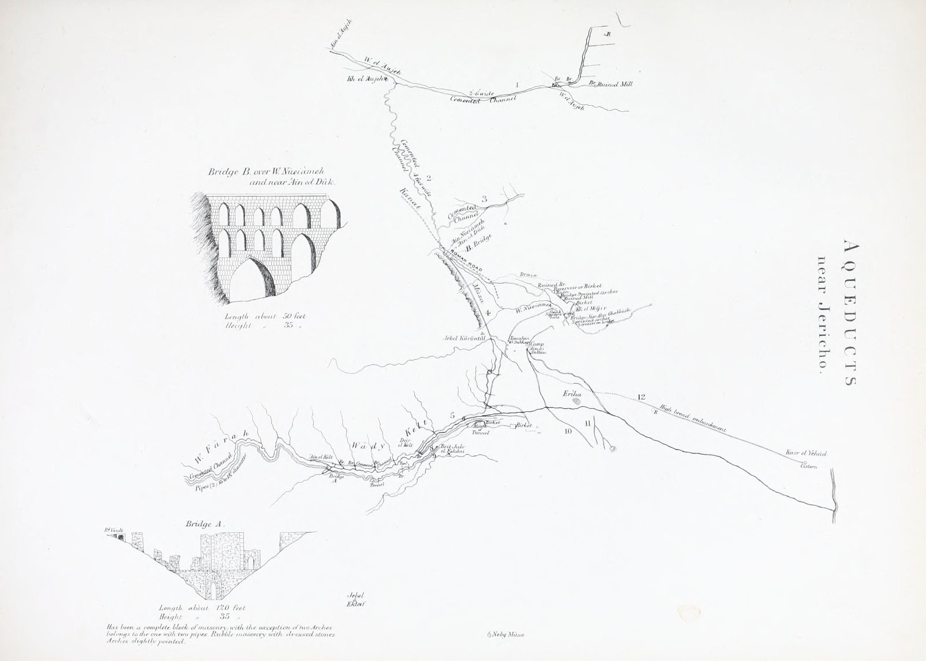 Jericho from the 1871-77 Palestine Exploration Fund Survey of Palestine